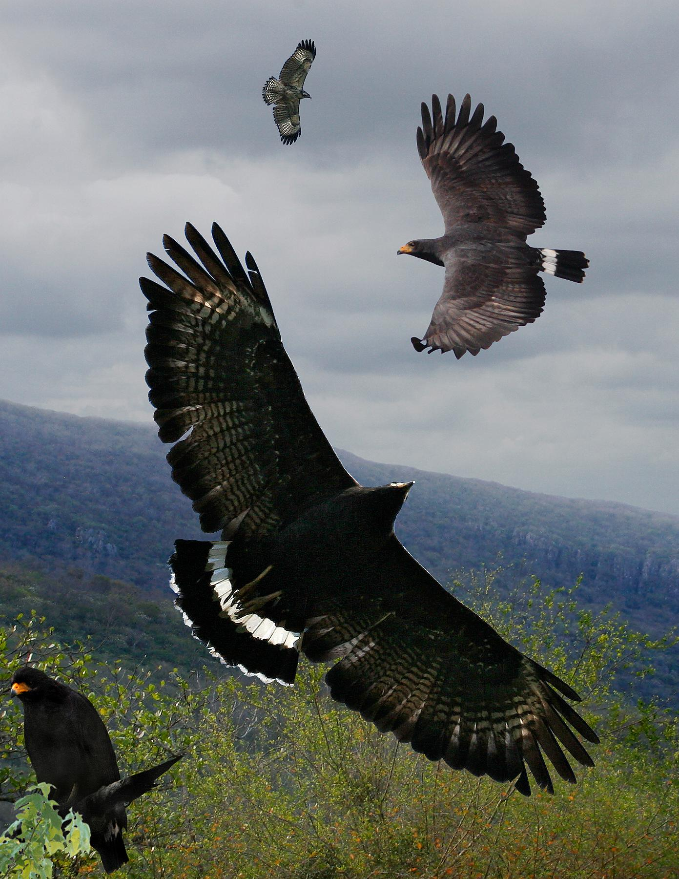 Common Black Hawk From The Crossley ID Guide Eastern Birds